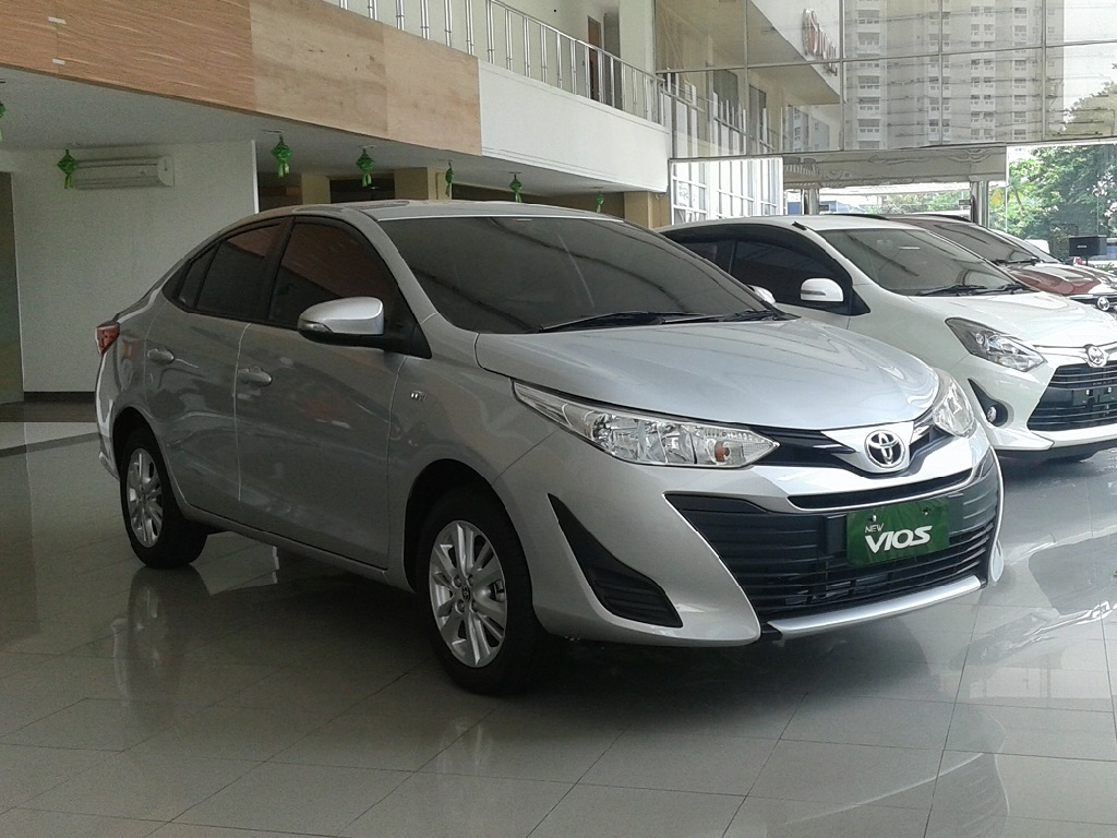 The facelift model 2018 Toyota Vios 1.5 E (NSP151R-CEMRKD), photo was taken in Jakarta, Indonesia.